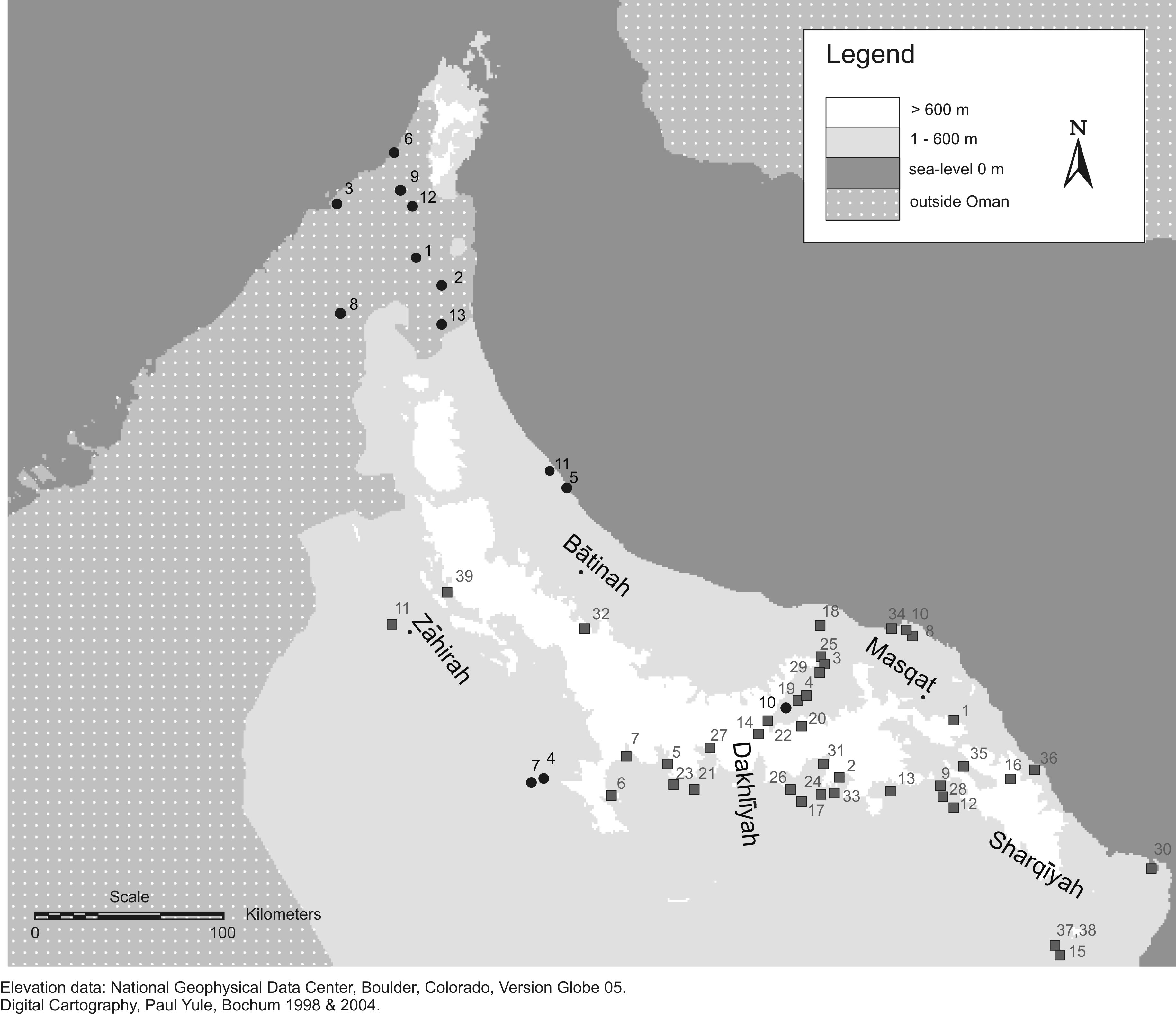 map, south-eastern Arabia, samad and NLPC assemblages, P. Yule